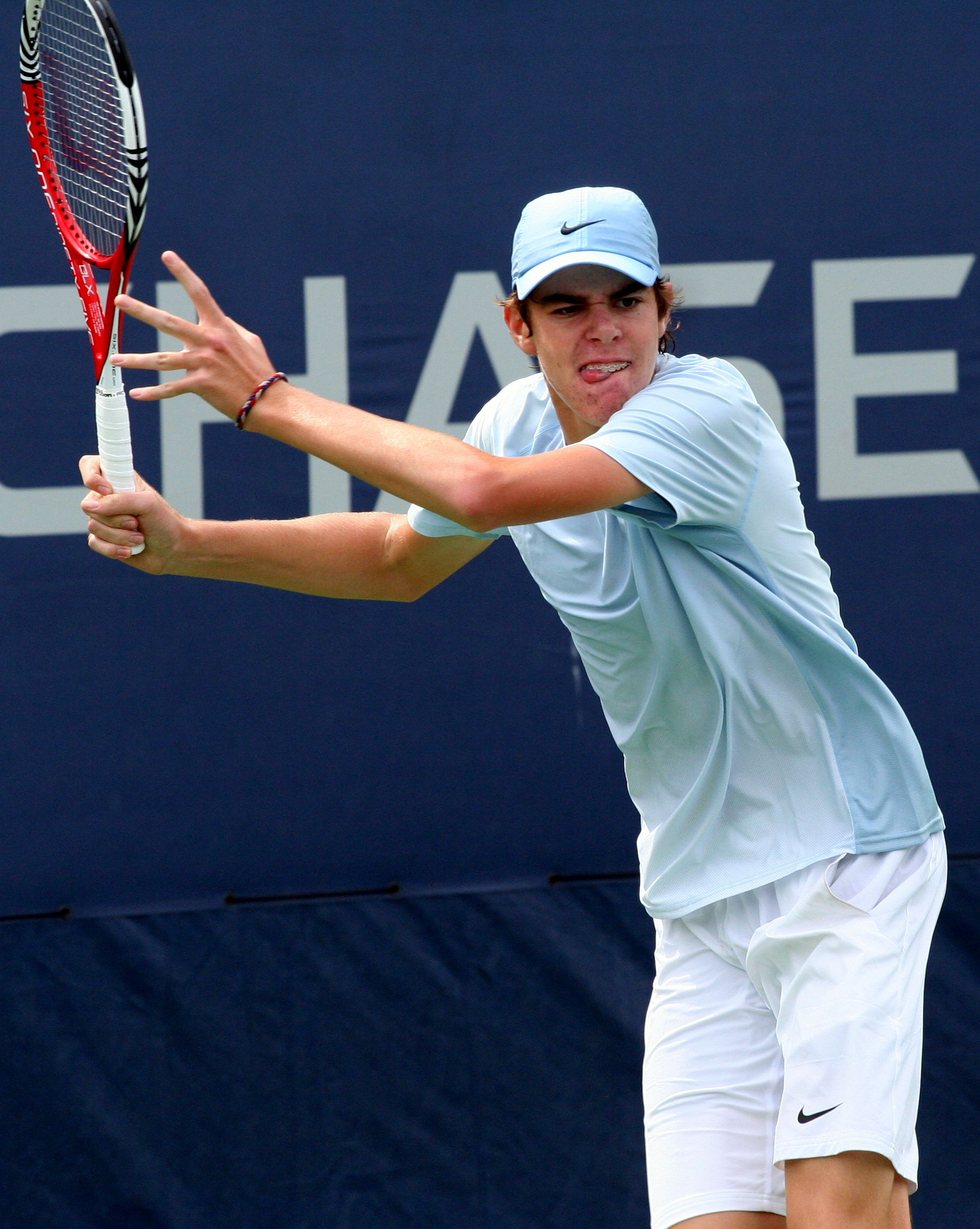 U.S. Open Juniors Tuesday, Sept. 3, 2013=